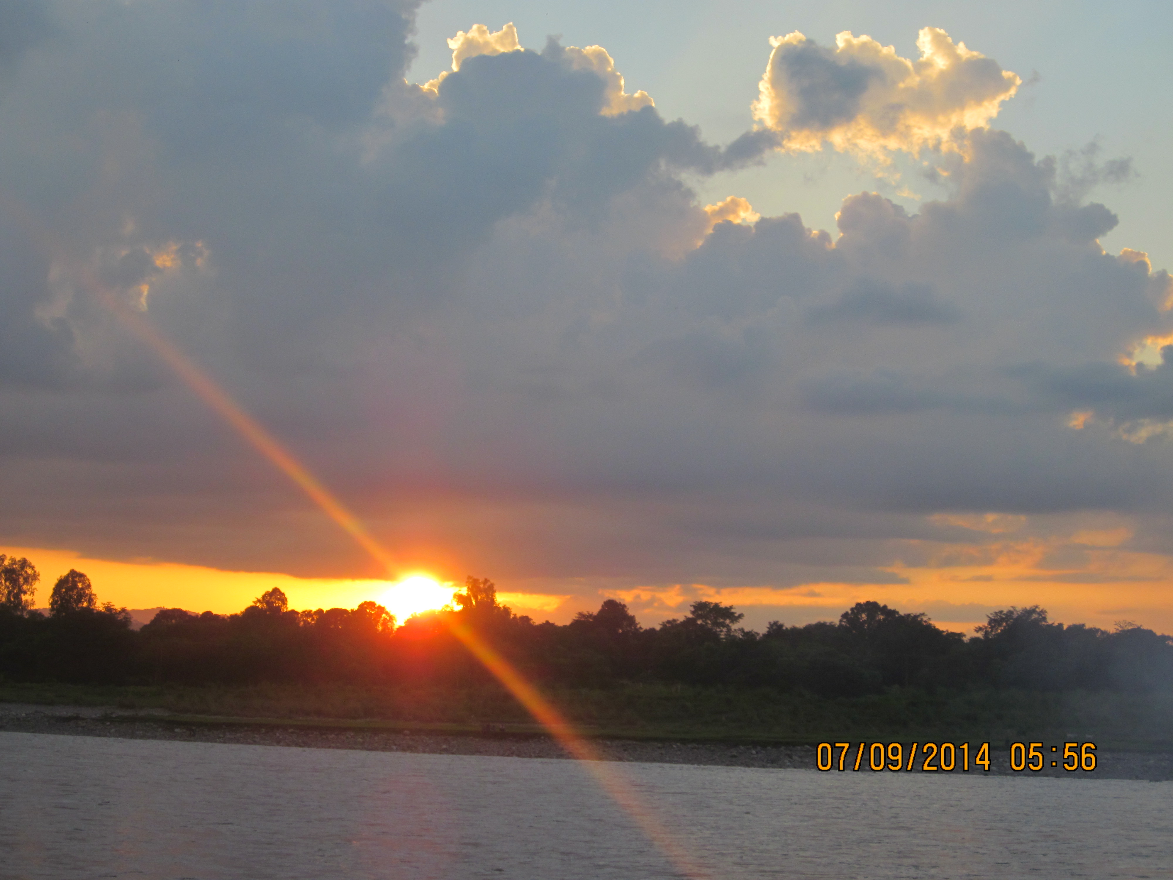 sunset with beas river nadaun